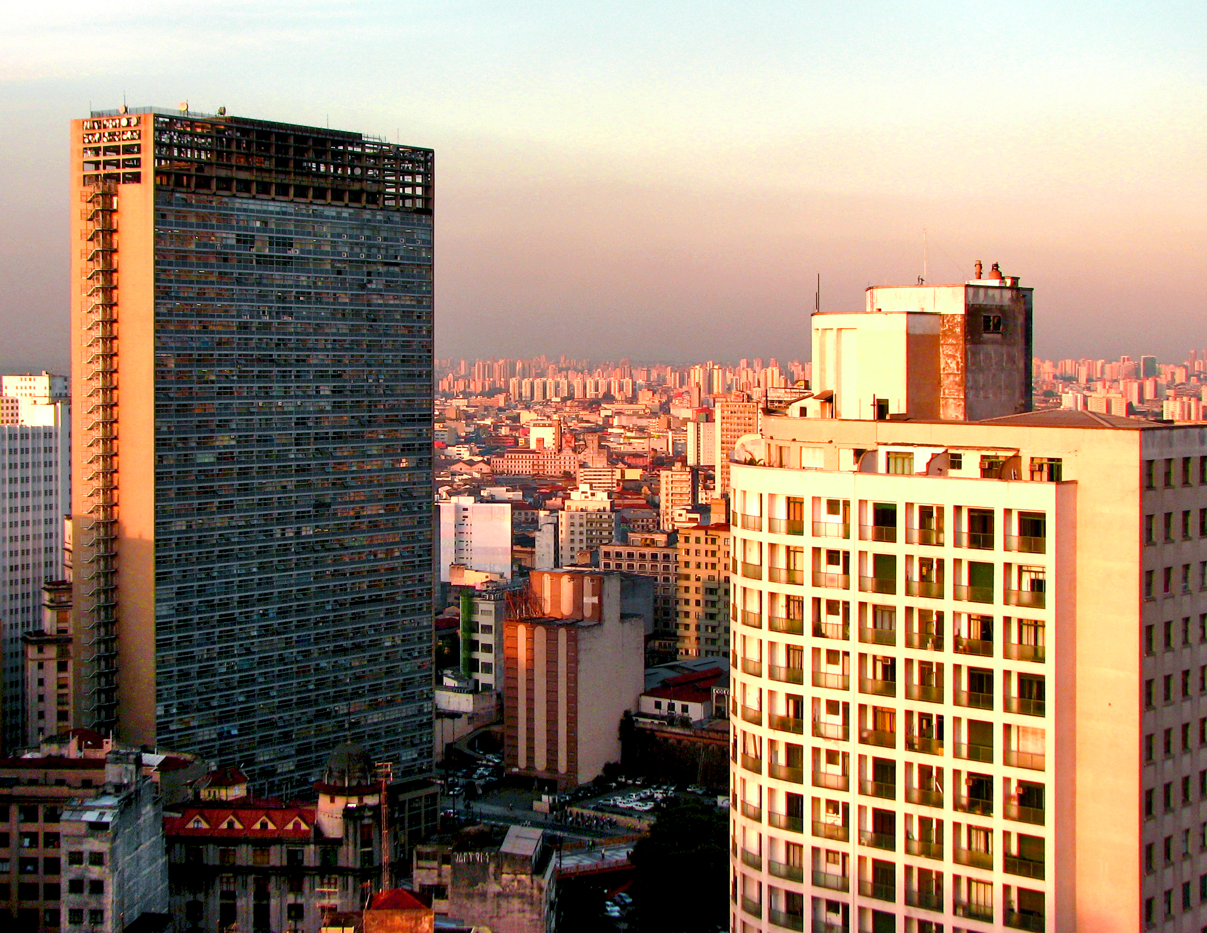 Downtown in São Paulo City. The East Side (Zona Leste) can be seen in the background. To the left, Mirante do Vale building. Another version of the same image can be found at Flickr.